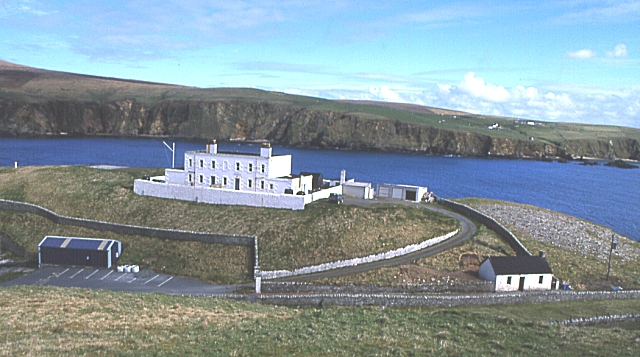 Lighthouse Shore Station, Burra Firth. The Hermaness National Nature Reserve visitor centre occupies part of the lighthouse building.